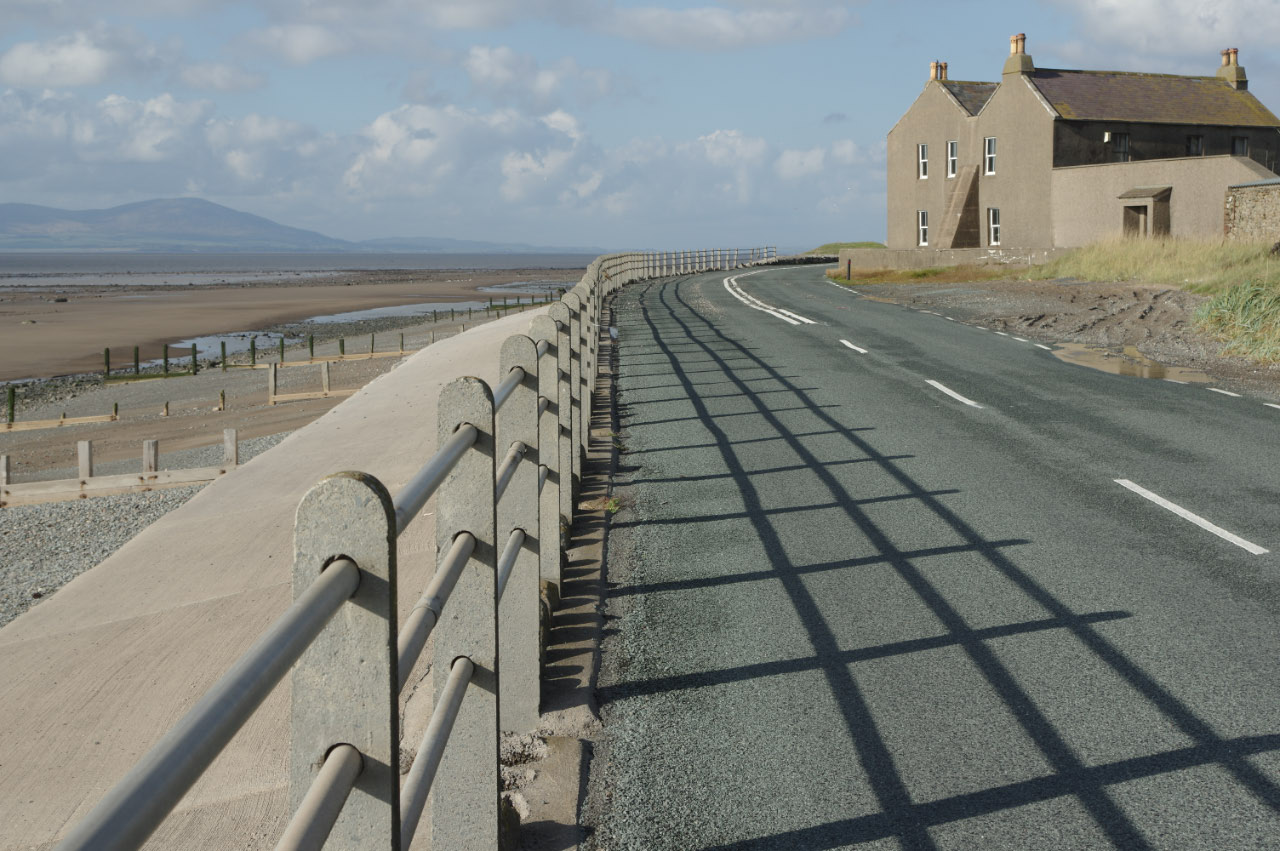 North of Allonby the B5300 hugs the shoreline as it approaches Dubmill Point.